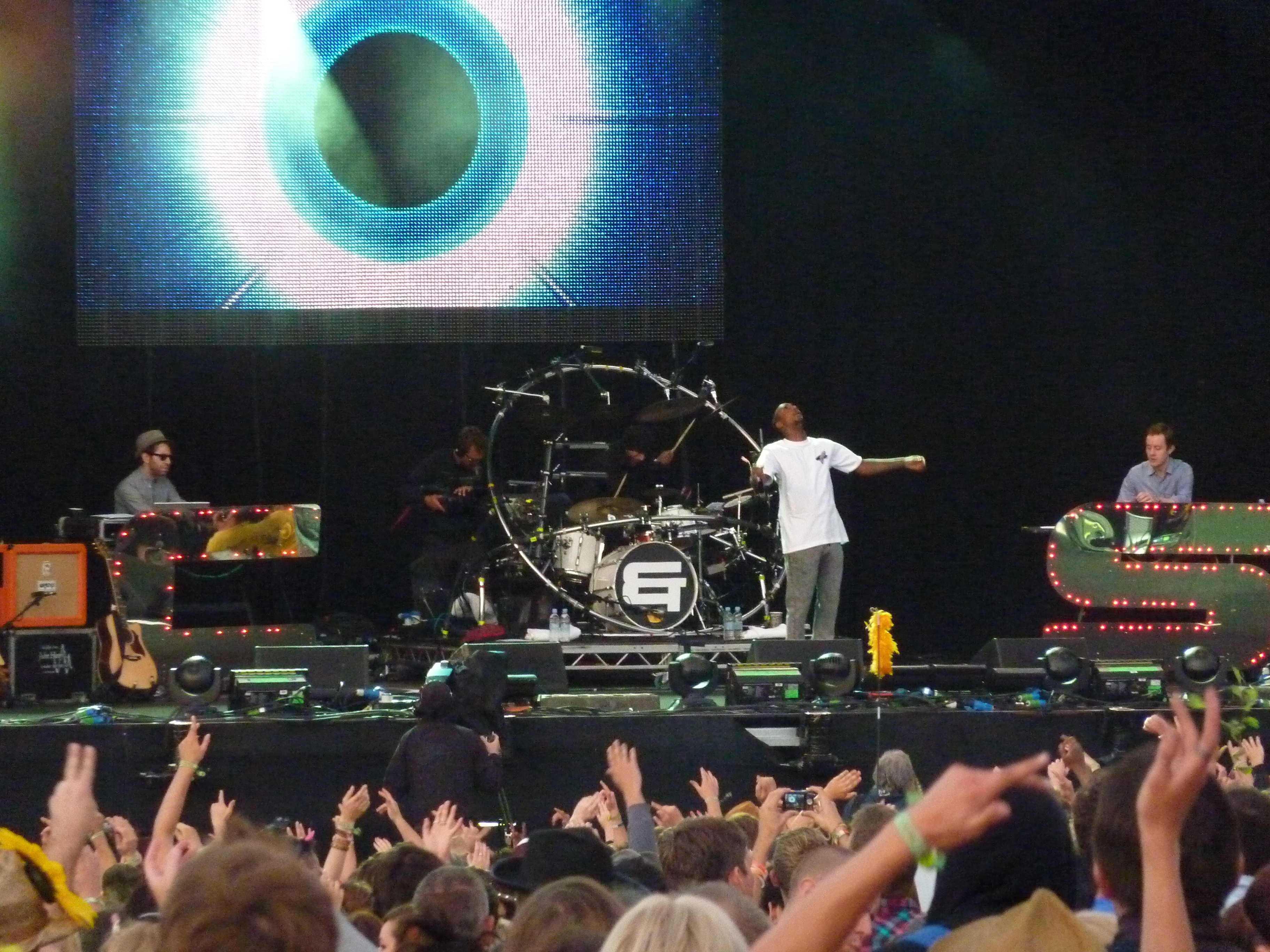 Chase & Status performing live at Bestival 2010, a music festival held at Robin Hill on the Isle of Wight.